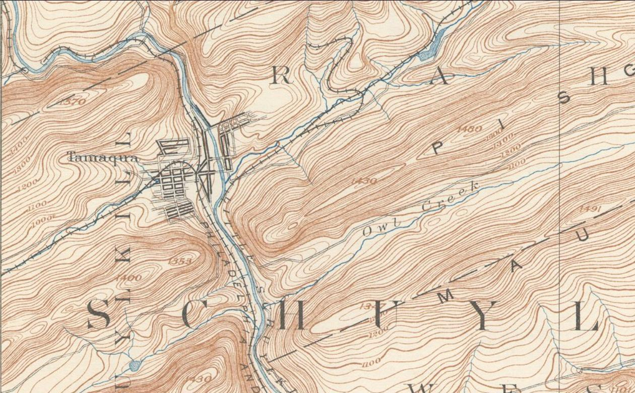 Cut down excerpt of 15 minute series USGS Hazelton Quadrant Map showing Tammaqua, Pennsylvania, confluence of the Schuylkill Rivers, showing Tamaqua Gap separating Nesquehoning Mountain to the east and Sharp Mountain to the west. related/continuation: File:Sharp Mountain NE peaks, USGS Mahanoy Pennsylvania Quadrant SE=maha92se.jpg